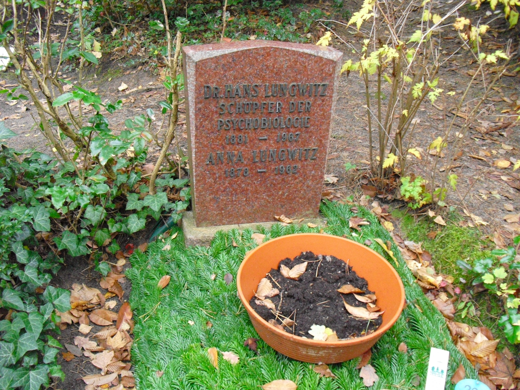 Grave of German physician and writer Hans Lungwitz at Friedhof Heerstraße in Berlin-Westend